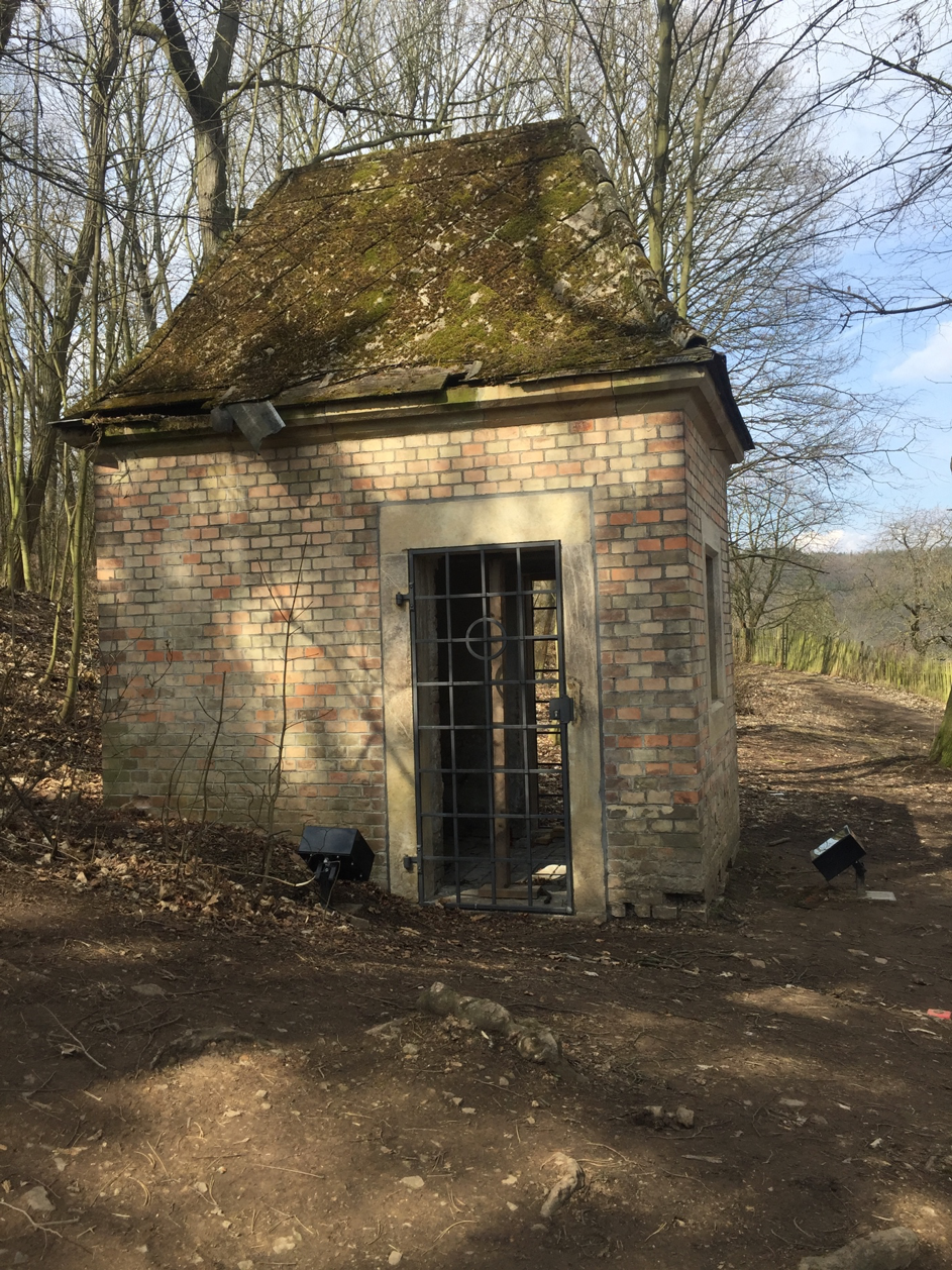 popis